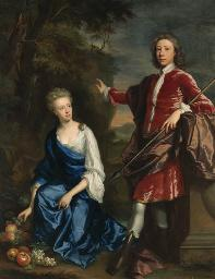 Double portrait of Edward Rolt (1686-1722), Member of Parliament, and Constantia Rolt his sister